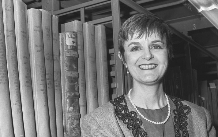 This is an image of Trudy Huskamp Peterson that was taken in March of 1988. She is searching the stacks of the NARA. It is published in the National Archives Catalog and is marked Unrestricted for Access and Use